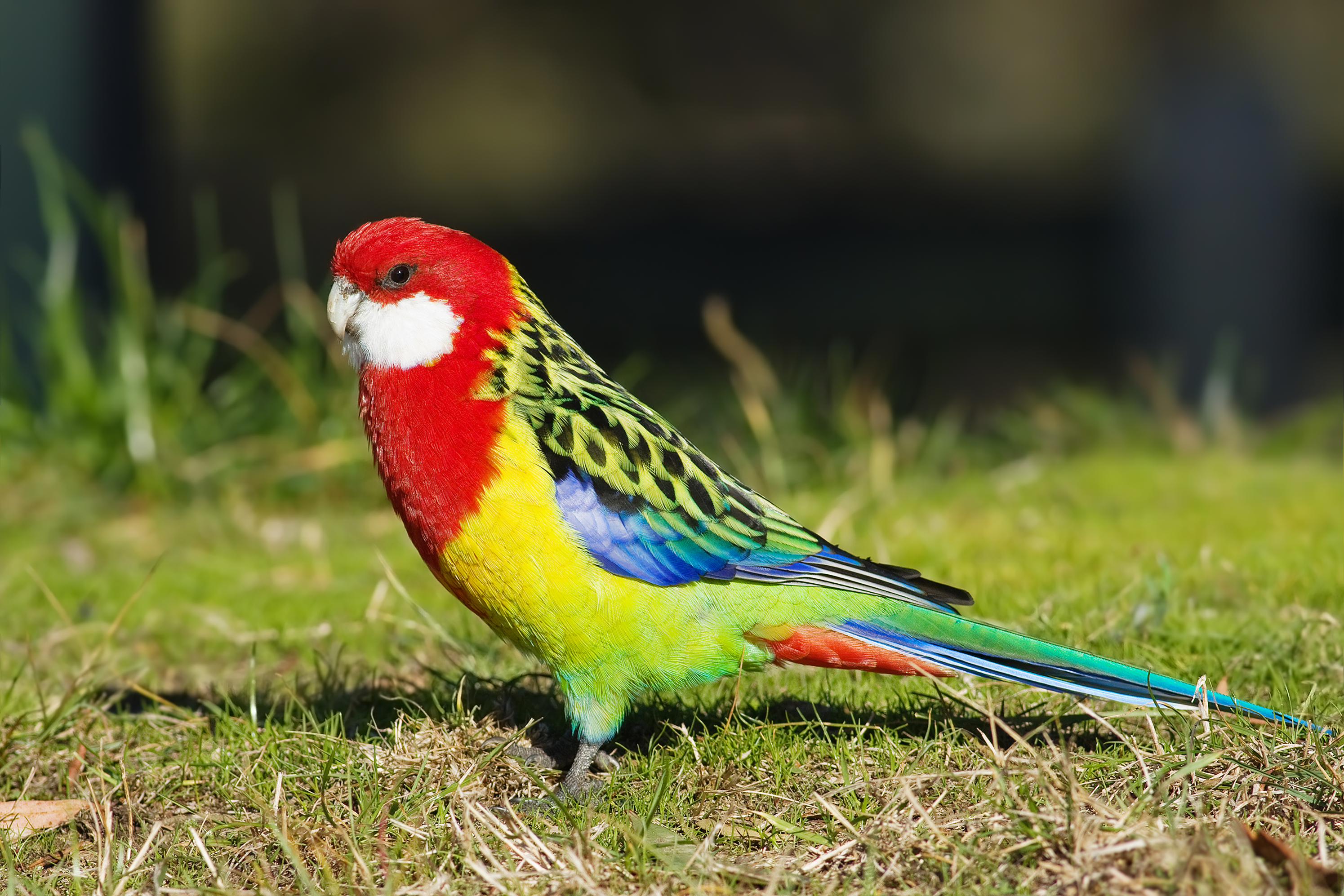 Eastern Rosella (Platycercus eximius), male, Queen's Domain, Hobart, Tasmania, Australia